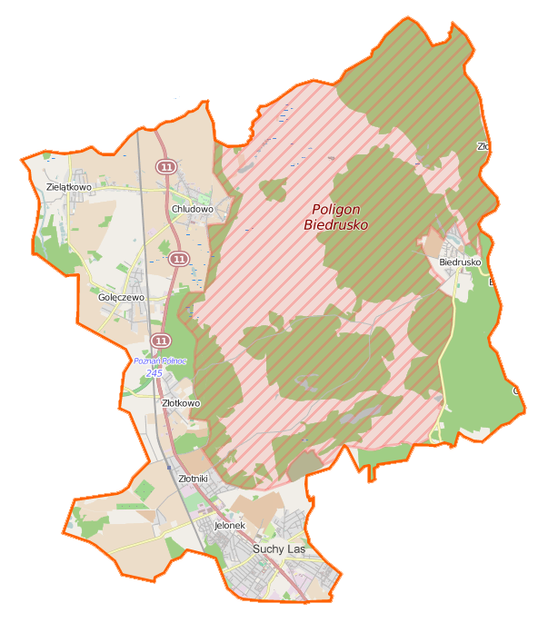 Map of Gmina Suchy Las, Poland This map of Suchy Las (gmina) was created from OpenStreetMap project data, collected by the community. This map may be incomplete, and may contain errors. Don't rely solely on it for navigation. Border coordinates52.603916.7720←↕→16.979052.4604